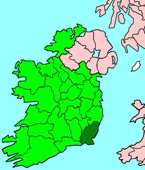 Wexford